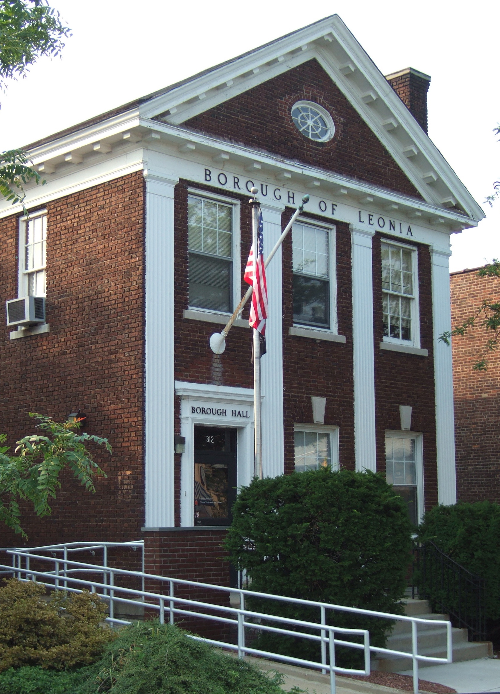 Photo of the Borough Hall in Leonia, New Jersey.